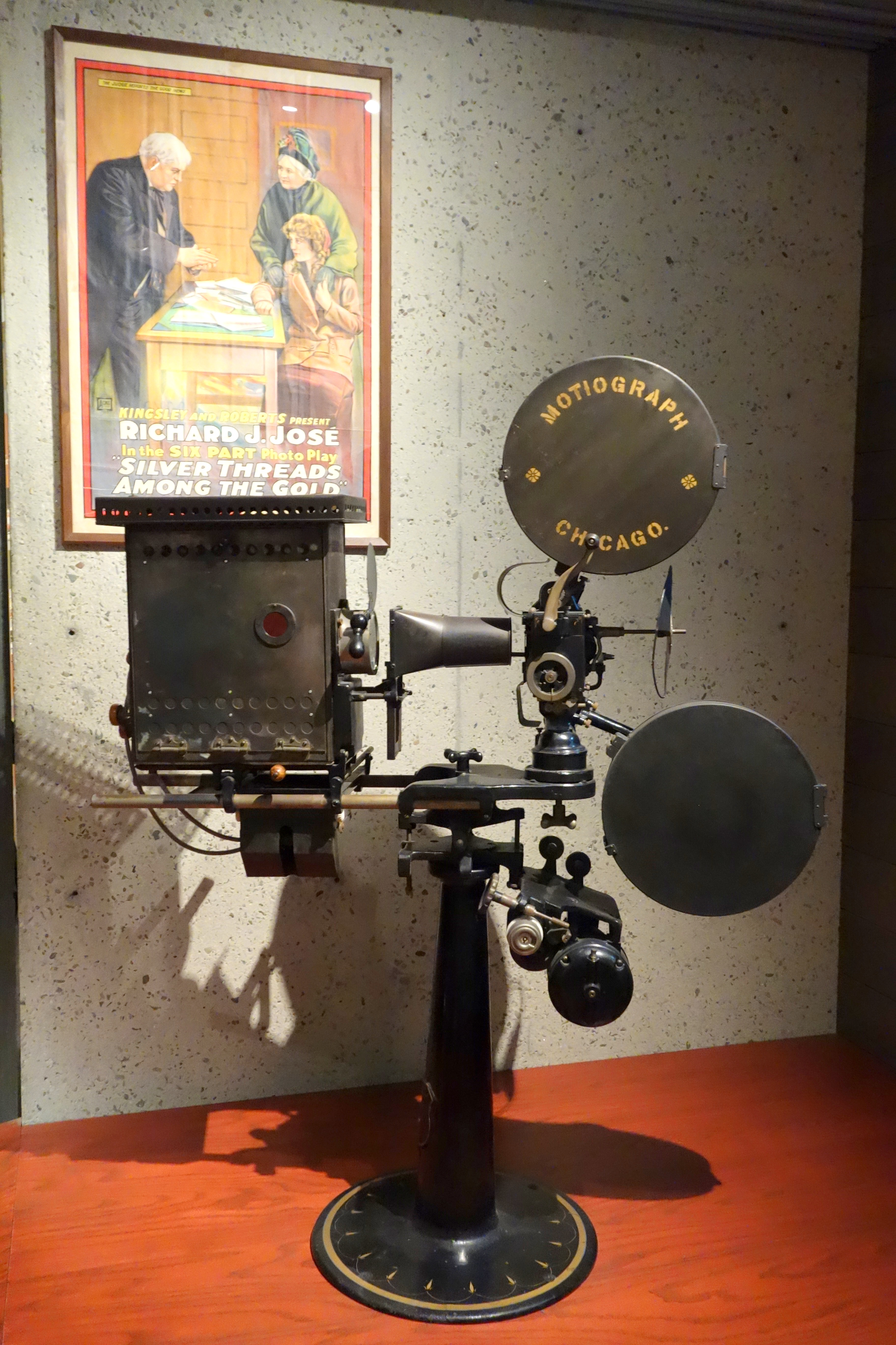 Exhibit in the Oakland Museum of California, Oakland, California, USA. This work is in the public domain because its maker died more than 70 years ago.